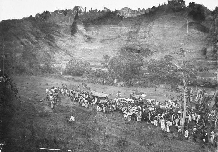 Bier carried in the procession during a death feast of the Toraja at Boengin